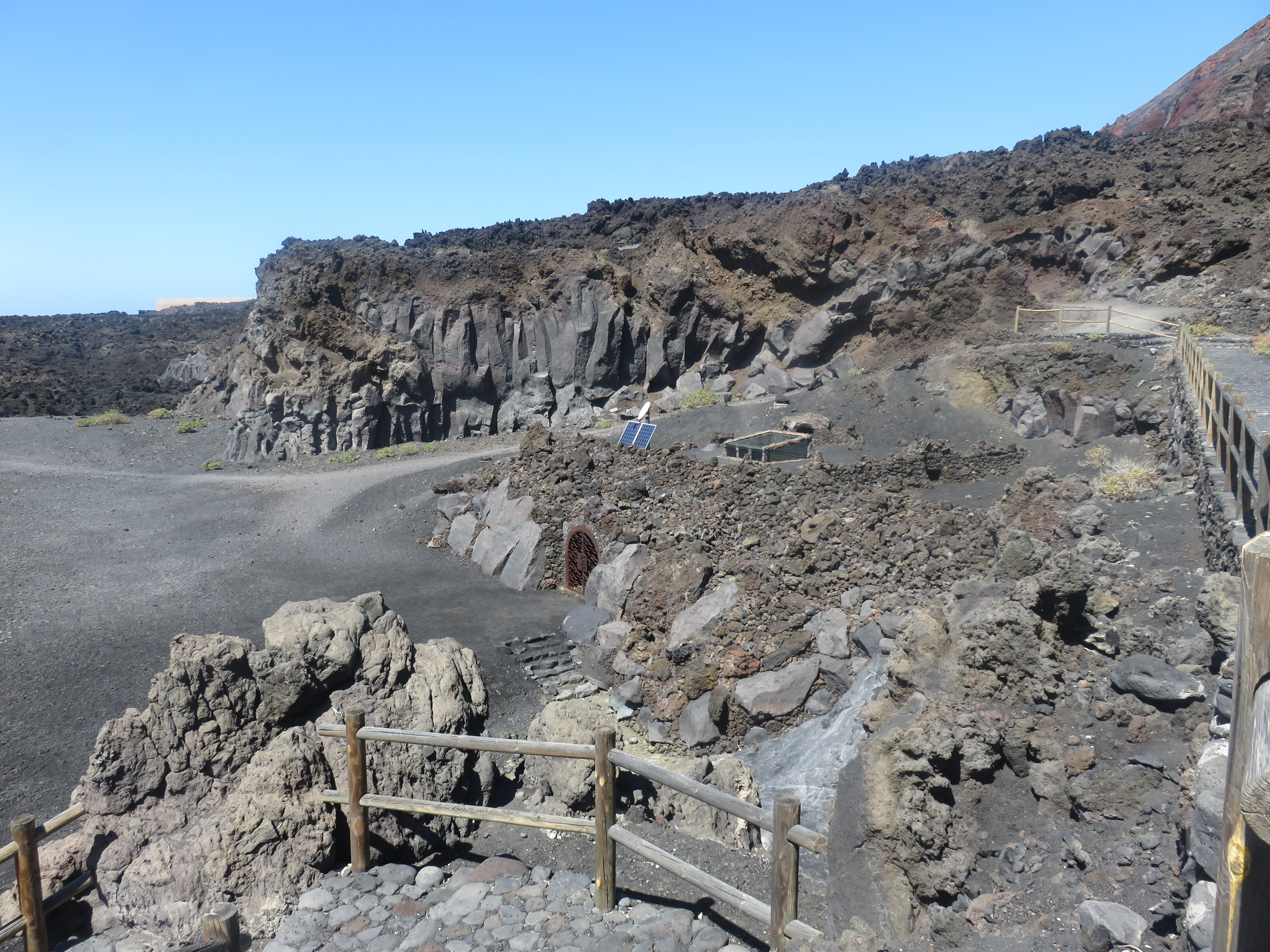 Entrance to the gallery Fuente Santa in Fuencaliente, La Palma.